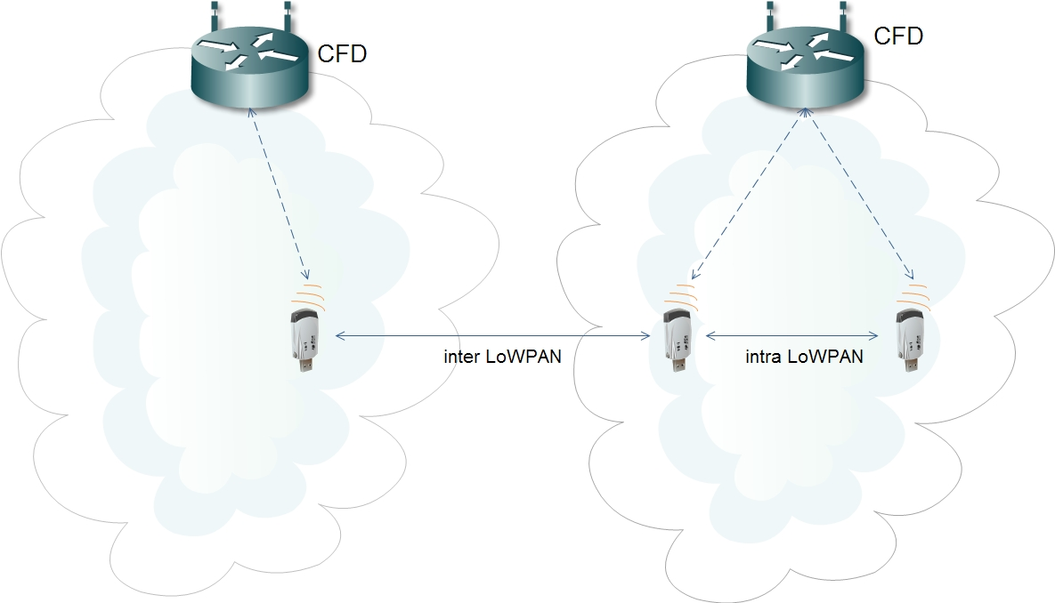 6LoWPAN_Mobility